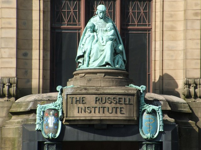 Above the entrance of the Russell Institute. This Art Deco building, which opened as a clinic for young mothers and children in 1927, was designed by James Steel Maitland (1887-1982), an architect in the Beaux-Arts tradition; originally from Strone in Argyll, he emigrated to Canada, working in Montreal before returning to Scotland and settling in Paisley. The bronze sculptures on this building are by Archibald Dawson. See also 963735 and 395444.